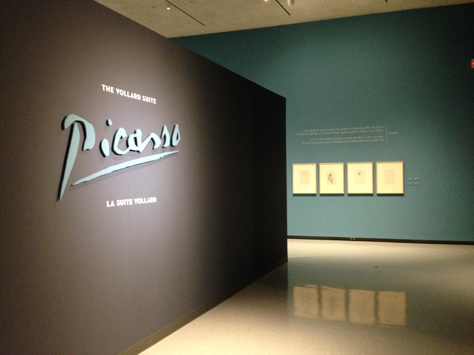 Pablo Picasso in Canada organized by WEG Winnipeg, may 13-aug 13. 2017.